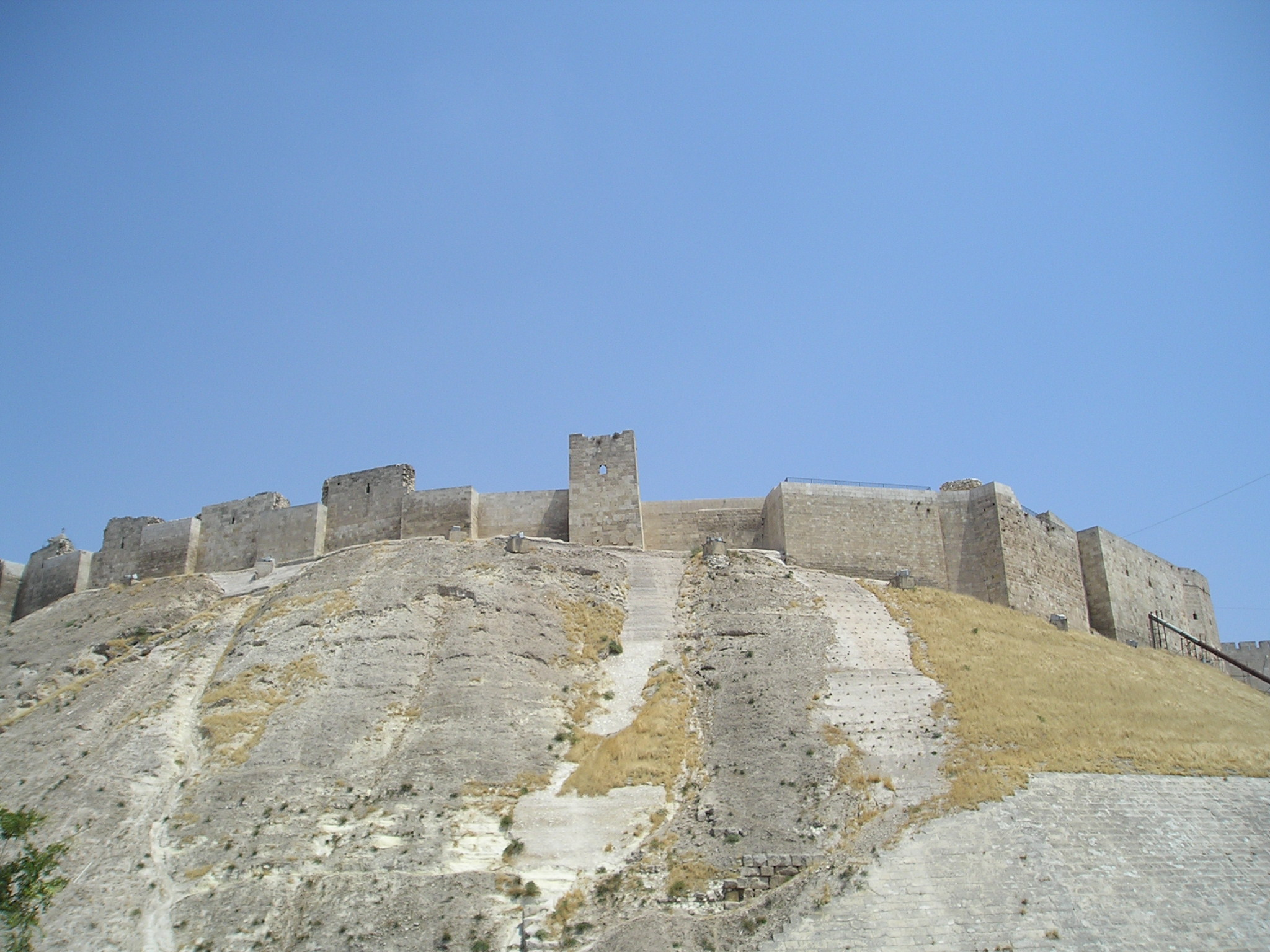 Aleppo, Syria - a view of the citadel.